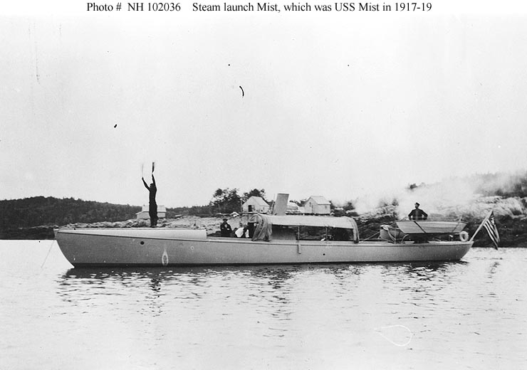 The steam launch Mist prior to her United States Navy service as the patrol vessel .